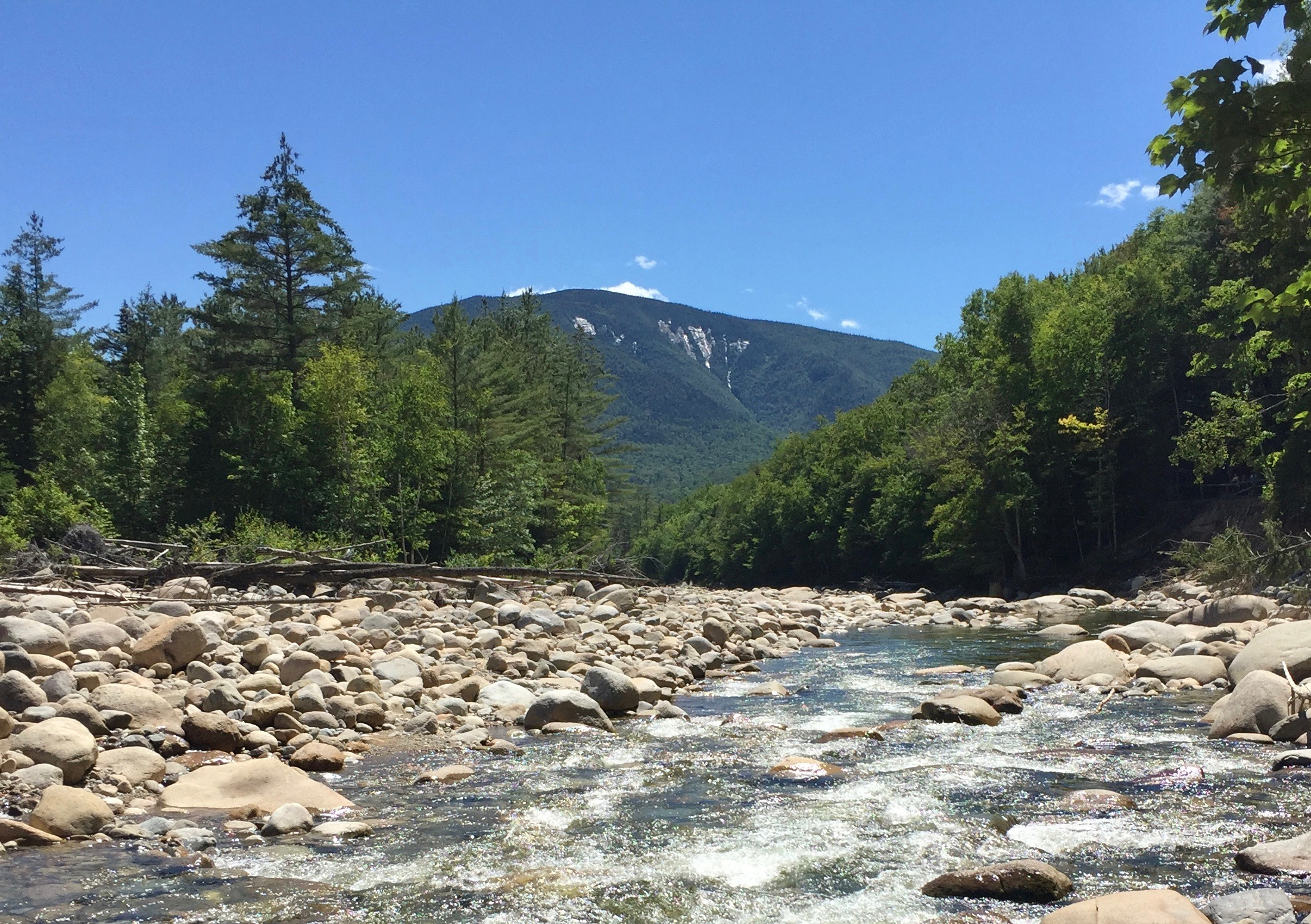 Scar Ridge in New Hampshire's White Mountains, viewed from the East Branch Pemigewasset River